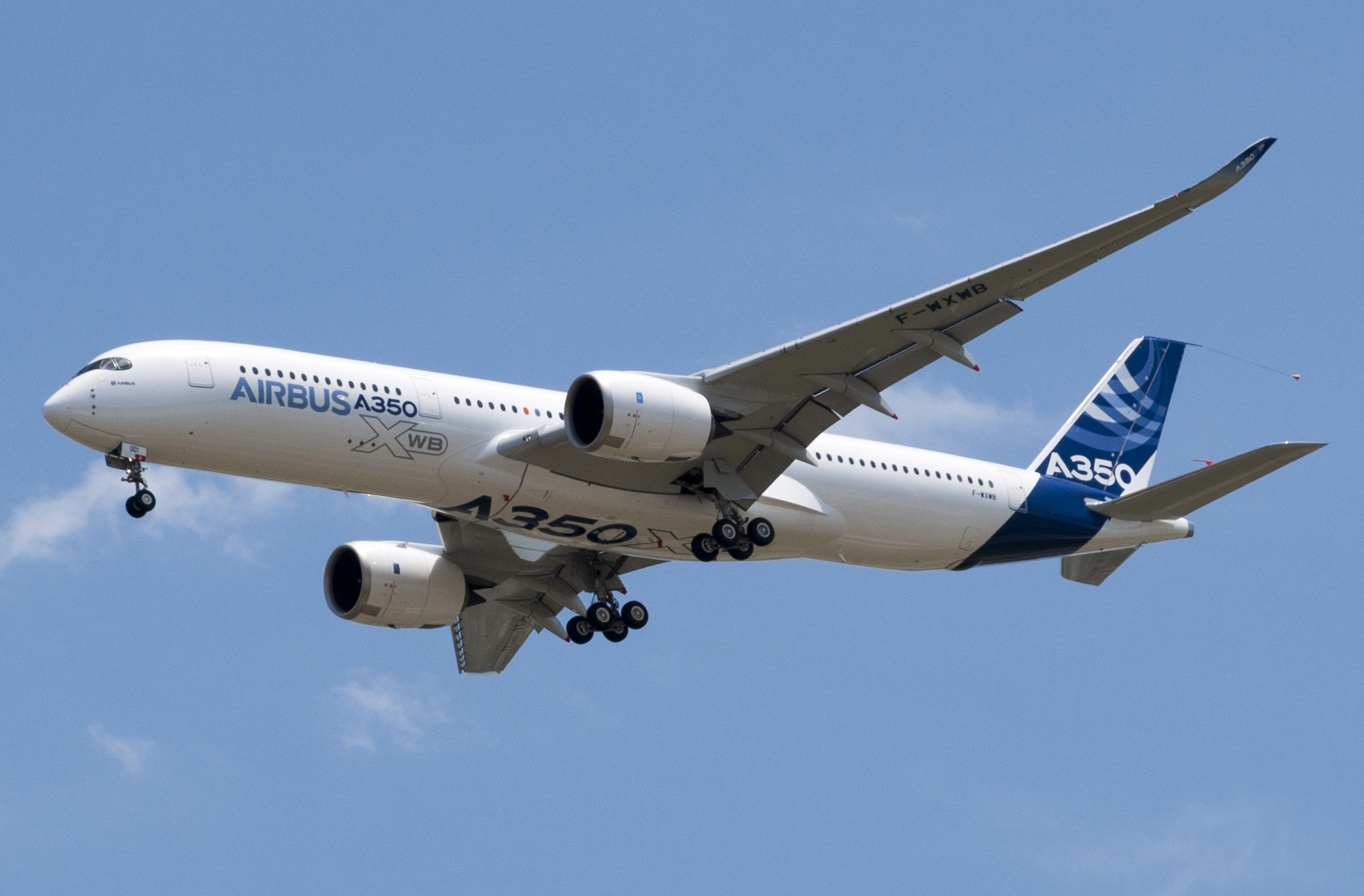 Low altitude pass of the first model of the A350 at the Airbus site in Toulouse